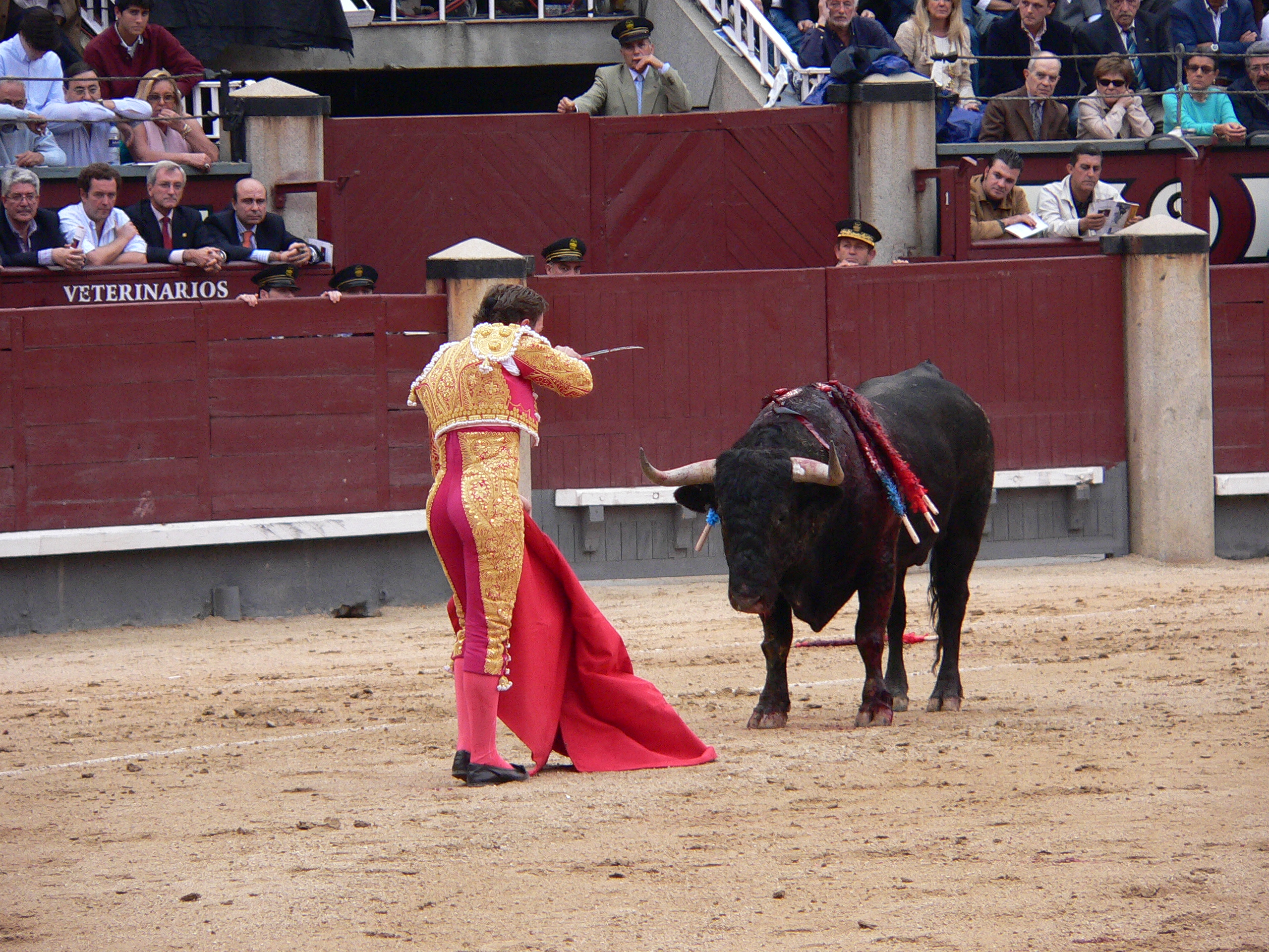 Description: Matador Place : Plaza de Toros Las Ventas City : Madrid Country : Spain Photographer: © Manuel González Olaechea y Franco Shot date : October, 9th , 2005